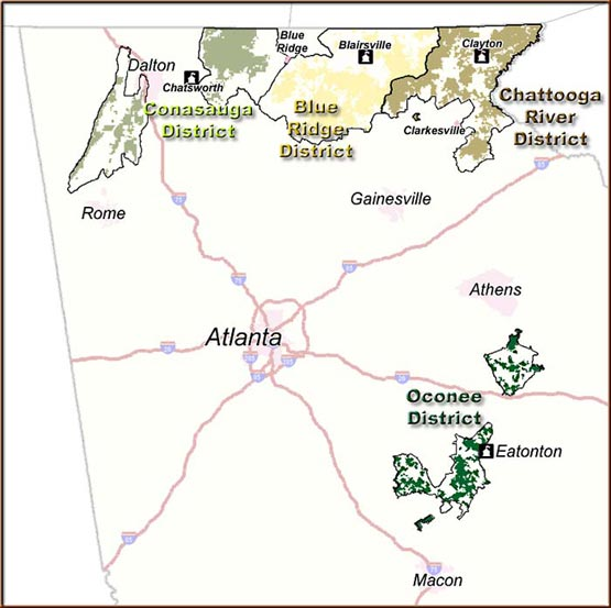 This image is a general map of north Georgia and shows the location of the 4 ranger districts of the Chattahoochee and Oconee National Forests. Major cities and interstate highways of north Georgia are shown for reference.